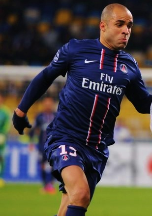 Alex Rodrigo Dias da Costa